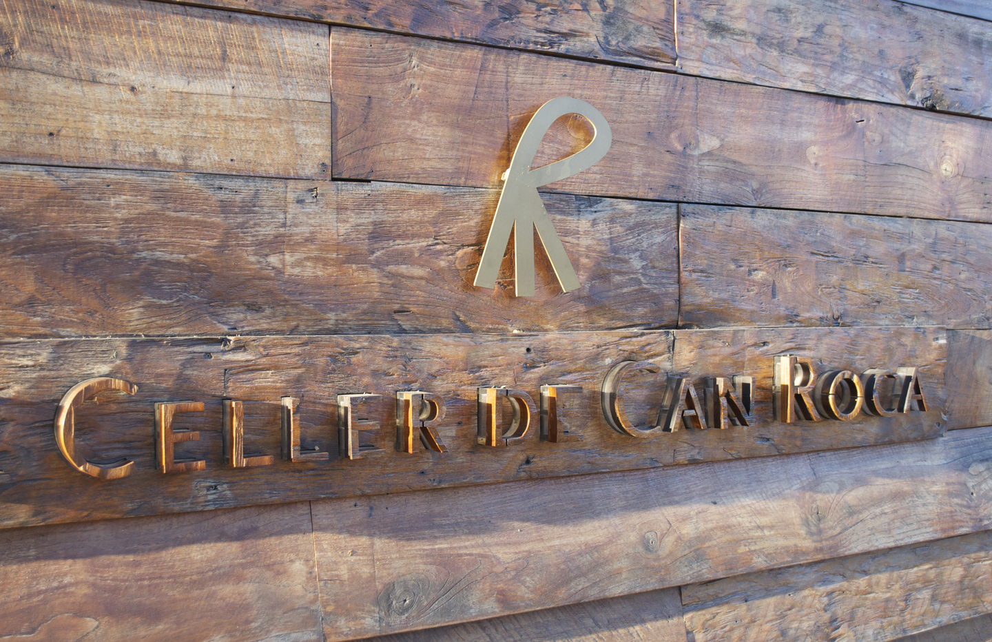 The sign at El Celler de Can Roca.